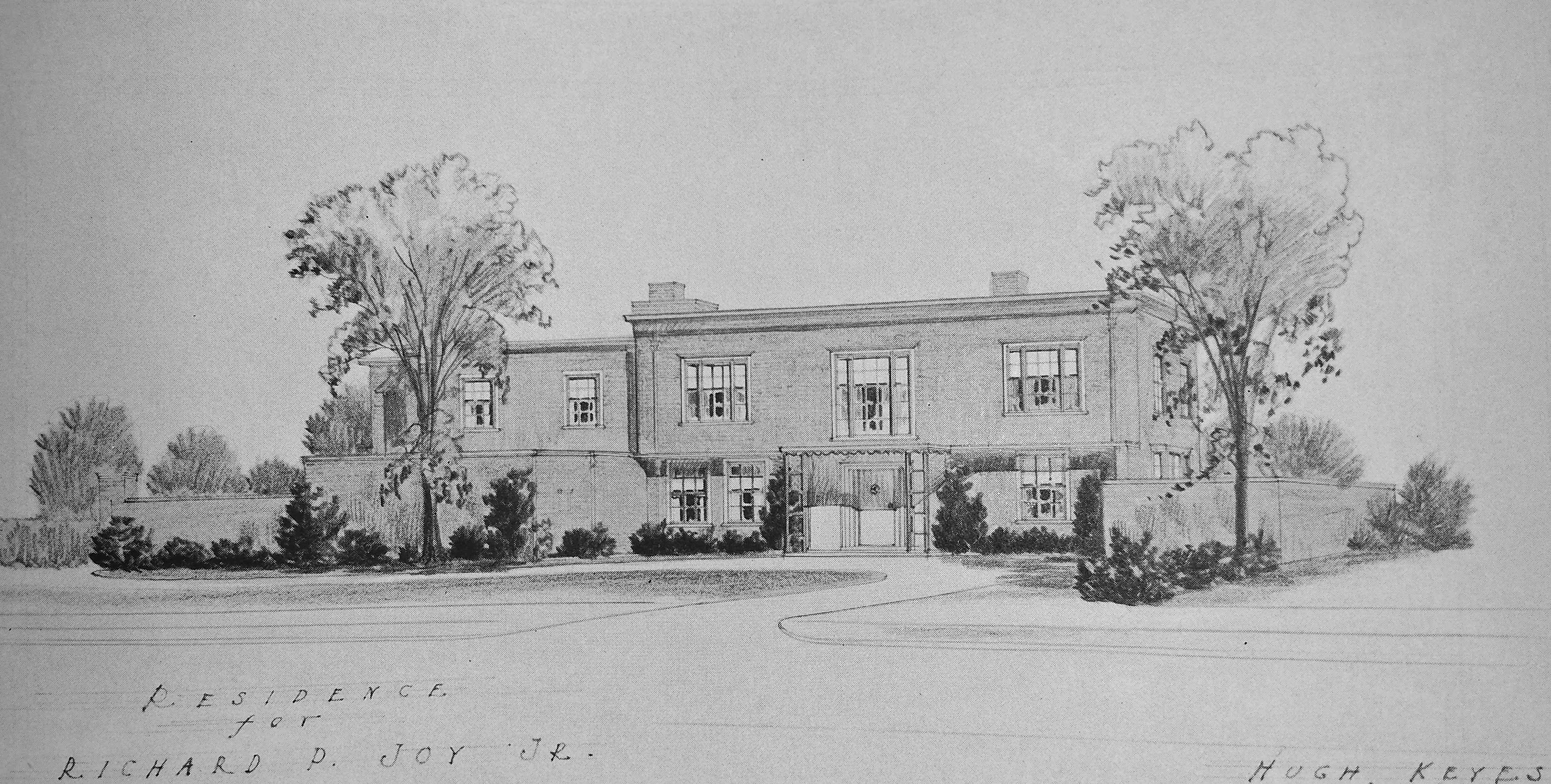 Residence for Richard P. Joy Jr. by Hugh Keyes